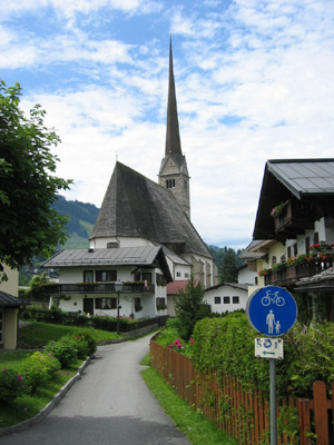 Maria Alm Church